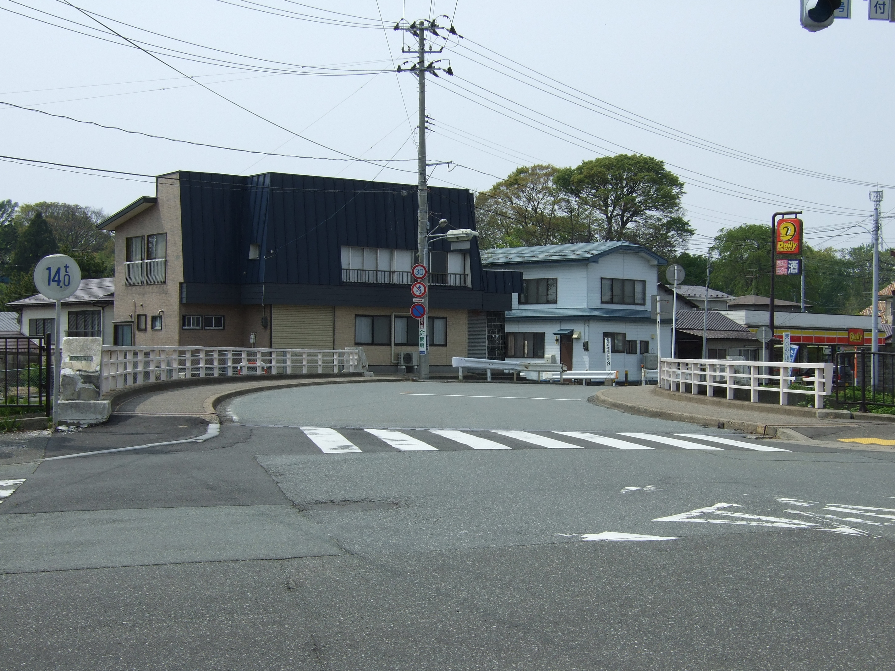 秋田市にて羽州街道が草生津川を跨ぐ面影橋 (Omokage-basi, Omokage bridge, Usyuu road across Kusoudu river, in Akita-city, Japan)